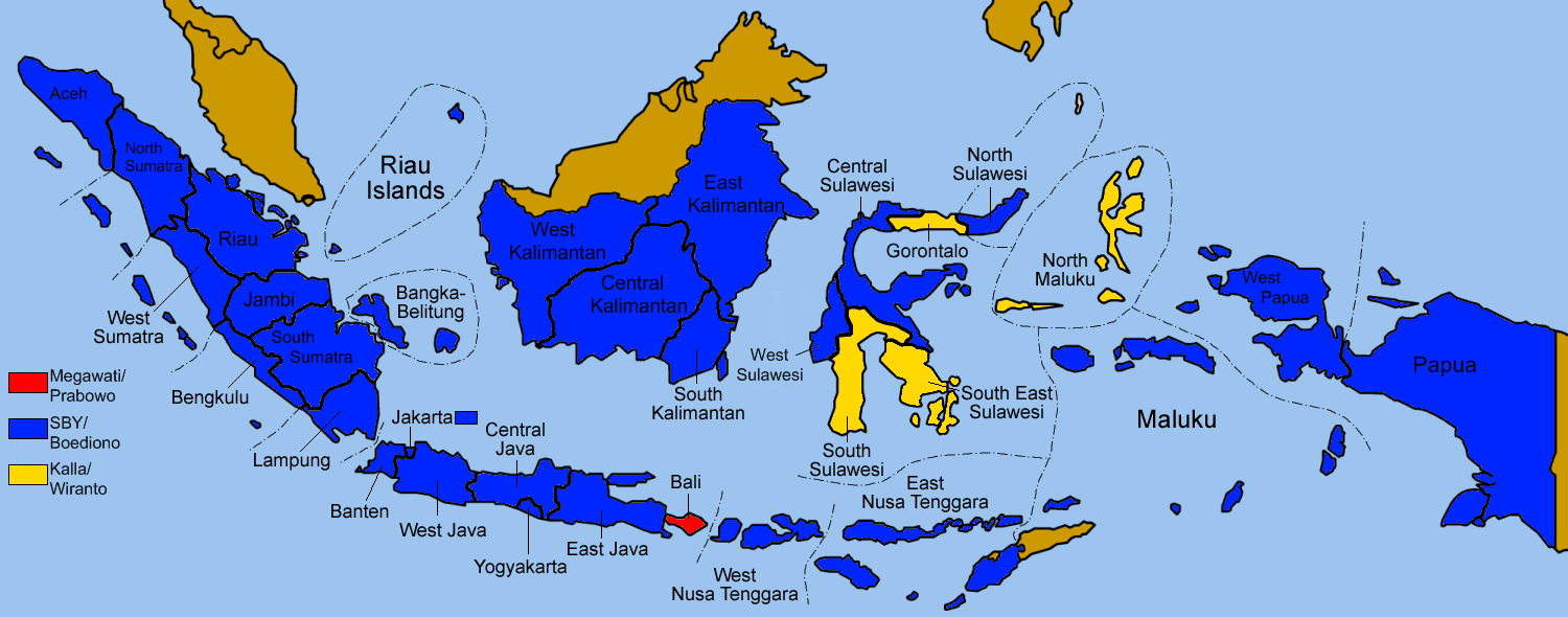 Map showing parties with the largest vote share for each candidate pairing in each province in the 2009 Indonesian presidential election. Adapted from Indonesia provinces english.png created by User:Golbez